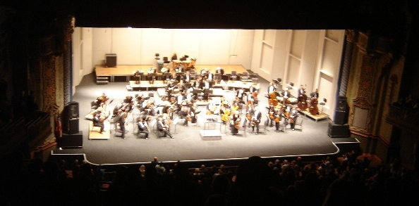 San Antonio Symphony Orchestra, San Antonio, Texas. Conductor: Michael Christie. Violin: Midori.